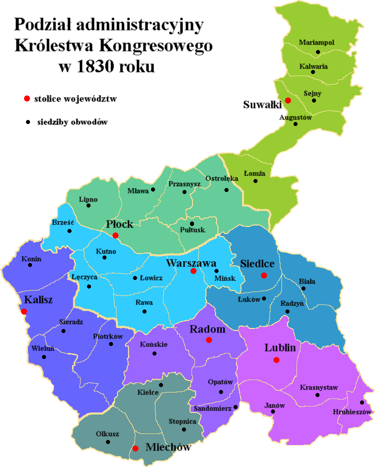 Administrative division of Congress Poland in 1830